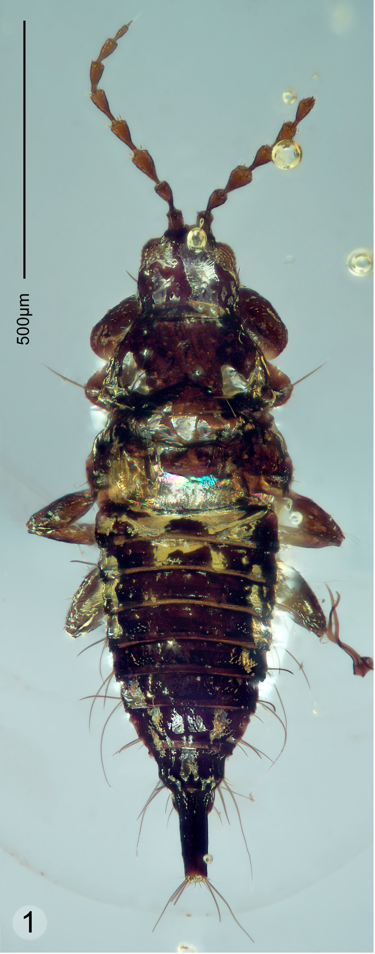 FIGURES 1–4. Rohrthrips spp. R. breviceps holotype male (1) dorsal view